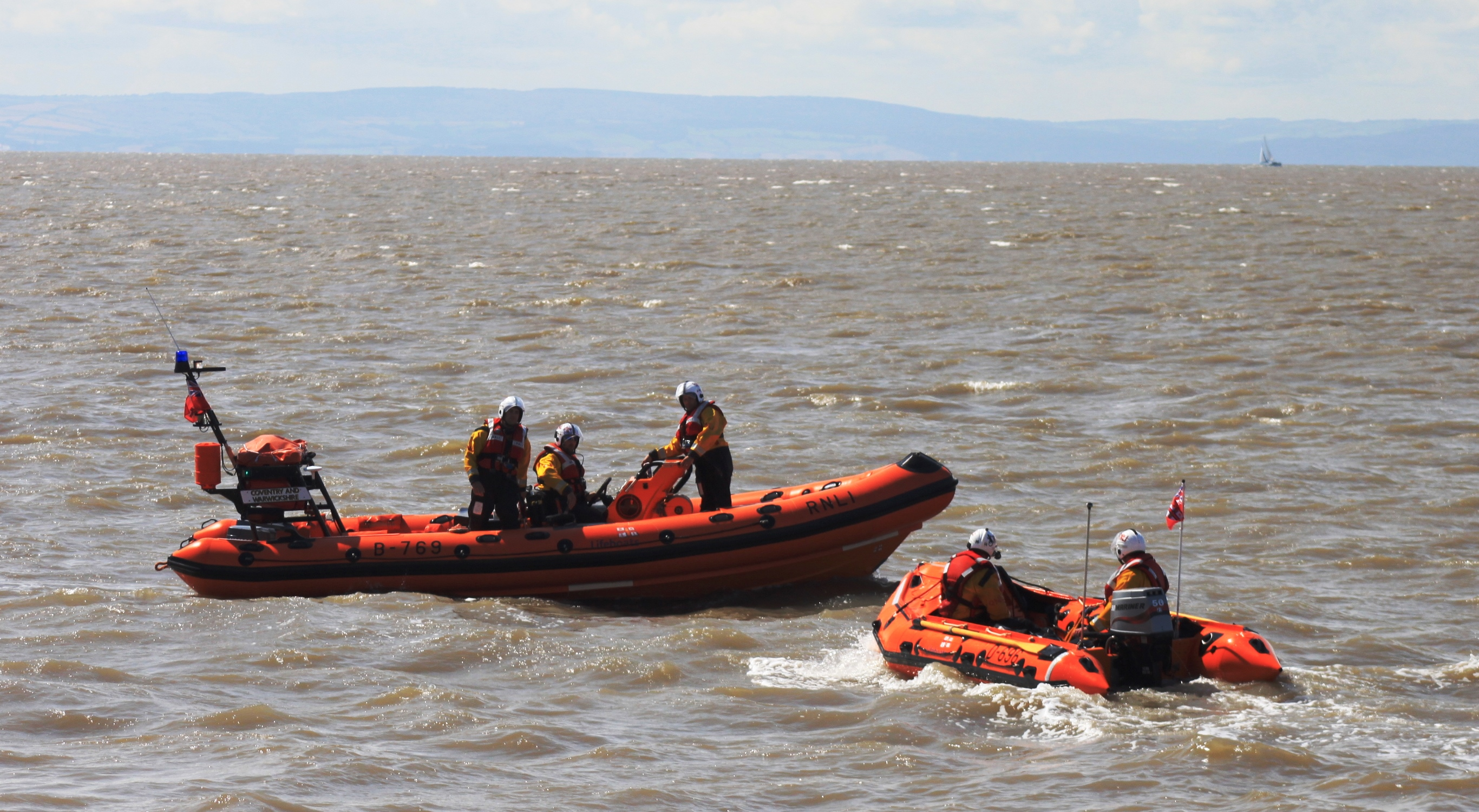 Weston-super-Mare's two lifeboats meet up off Anchor Head. On the left is Atlantic 75 B-769 Coventry and Warwickshire; on the right is the smaller IB1 D-696 Anna Stock.